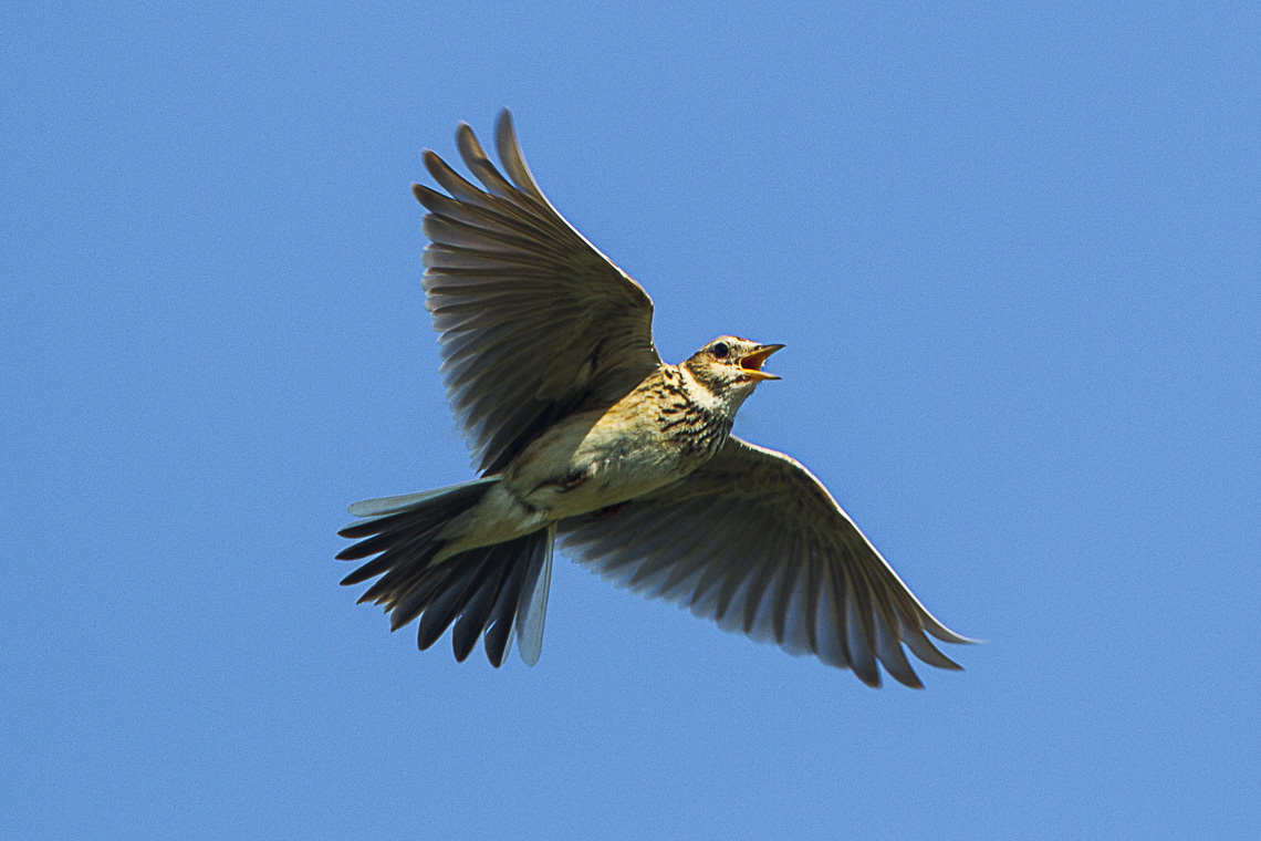 Eurasian Lark - Carso - Italy_S4E6227